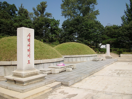 Gravesite of the 400 mothers and children at the Sinchon Massacre site.